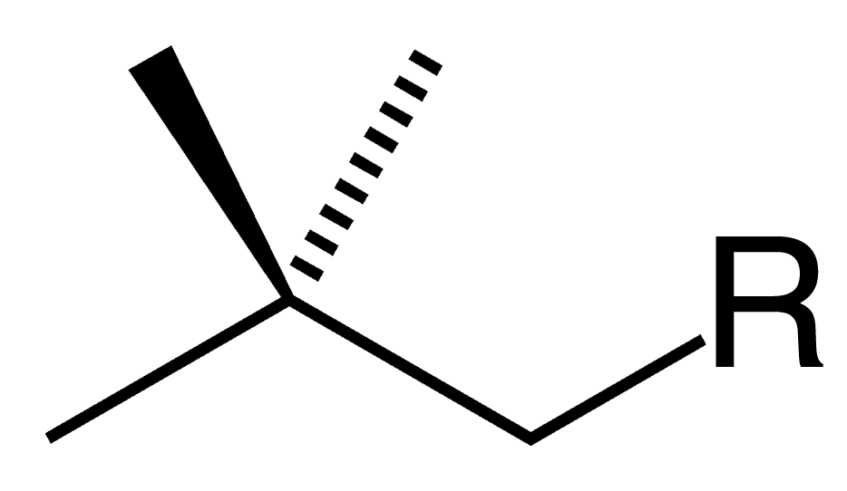 Skeletal formula of neopentyl group